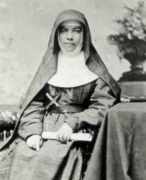 Sister Mary MacKillop (1842-1909), Australian nun, foundress of the congregation of Sisters of St Joseph of the Sacred Heart